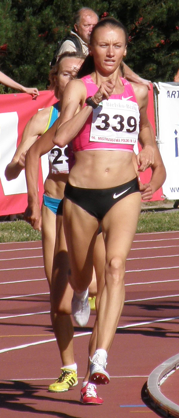 Renata Pliś - 2010 Polish Championships in Athletics (Bielsko-Biała)